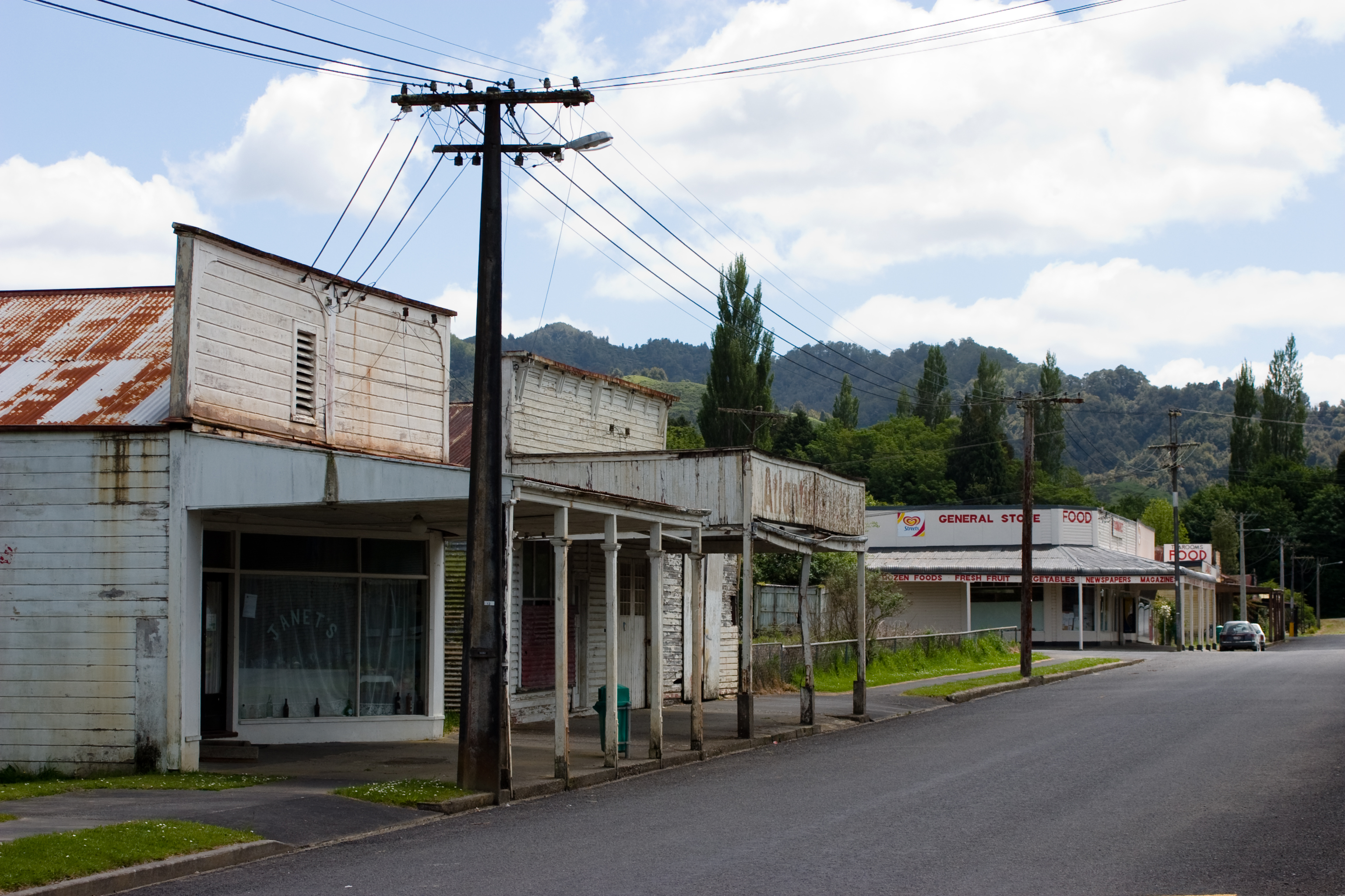 Ohura main street